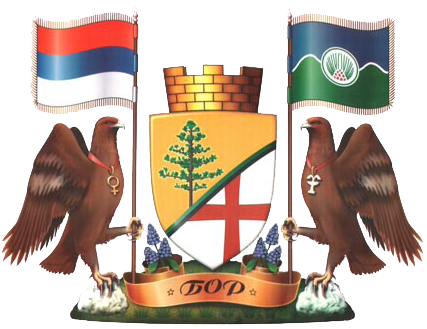 Greater coat of arms of Bor, Serbia